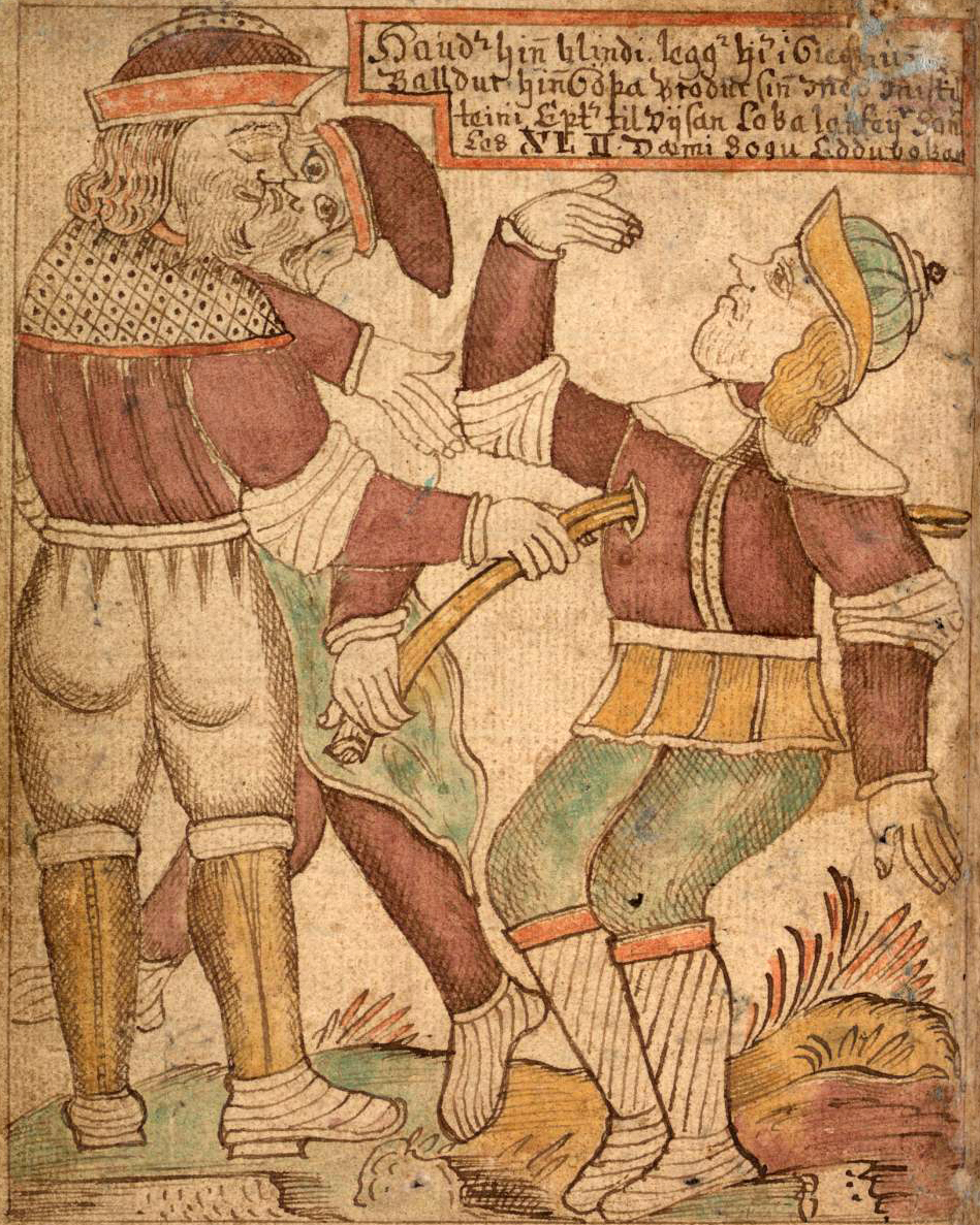 An illustration of the blind Höðr killing Baldr, from an Icelandic 18th century manuscript.